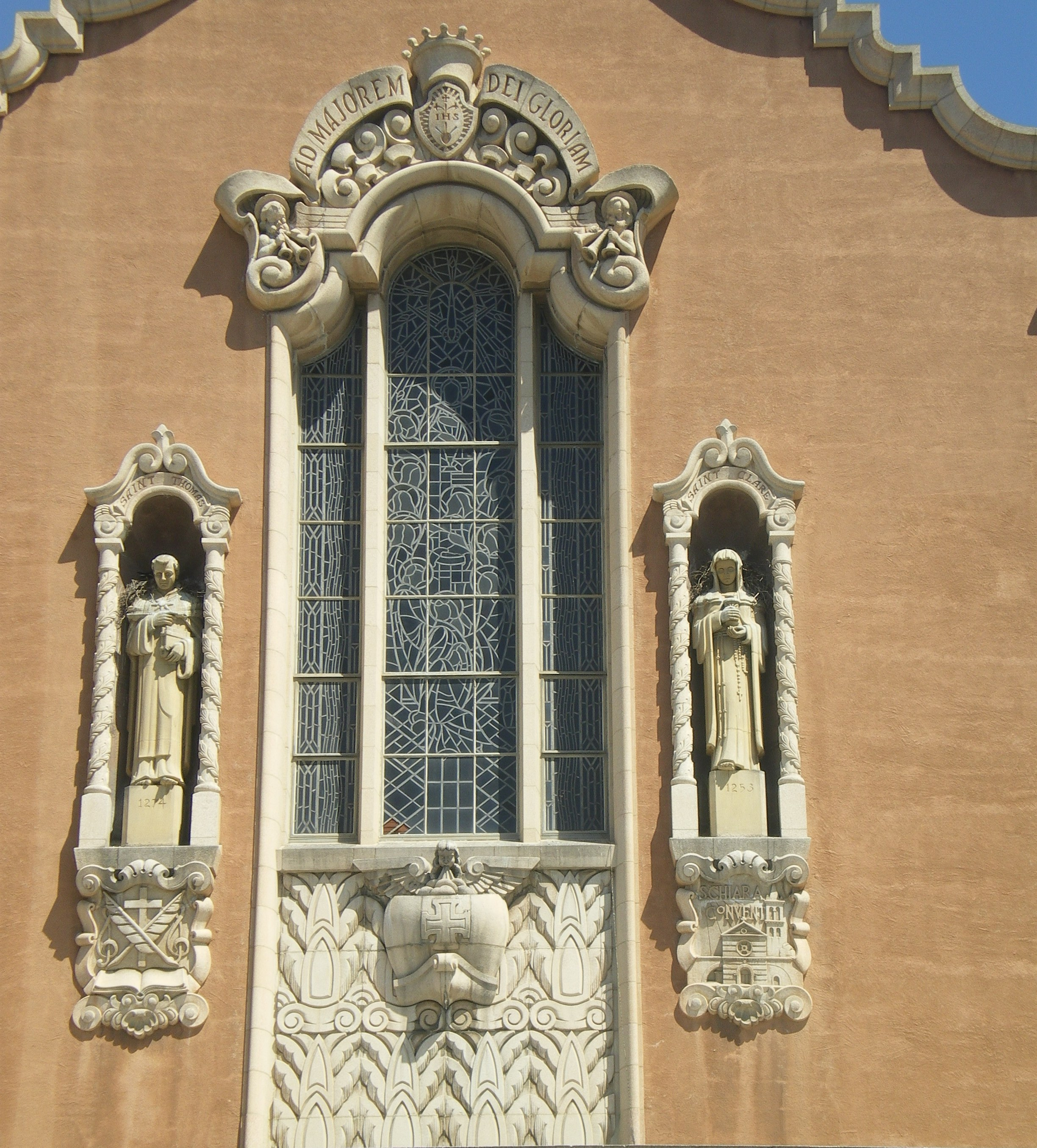 Facade of Blessed Sacrament Catholic Church (Los Angeles, California)